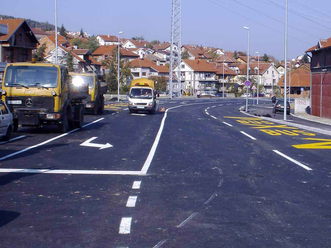 Mirijevski bulevar ("Mirijevo Boulevard") in Mirijevo, suburb of Belgrade, Serbia; built over former Mirijevski potok ("Mirijevo Creek") in 2011.